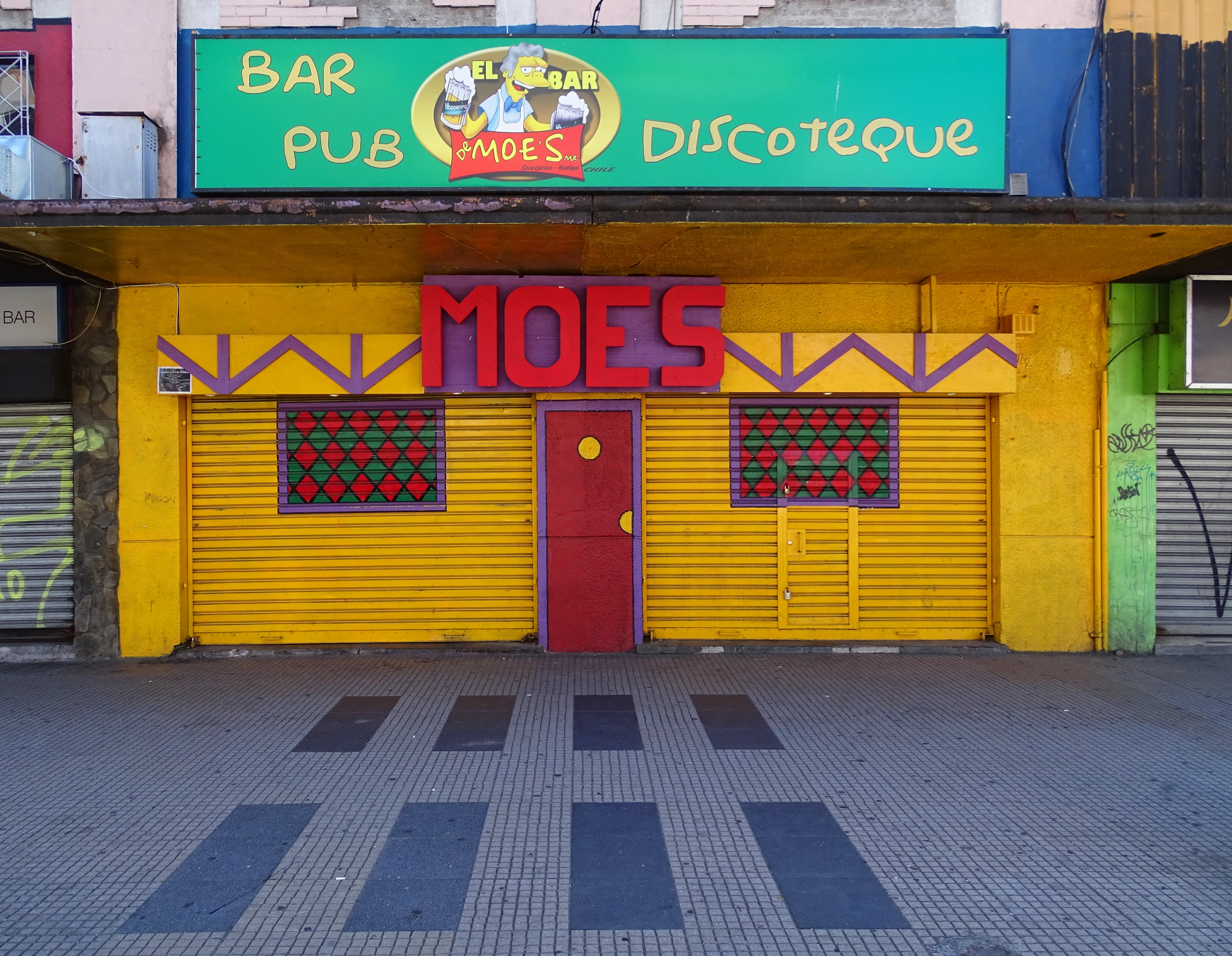 Moe's Bar in Concepcion, Chile, is closely based on images from The Simpson's movie and TV series episodes.